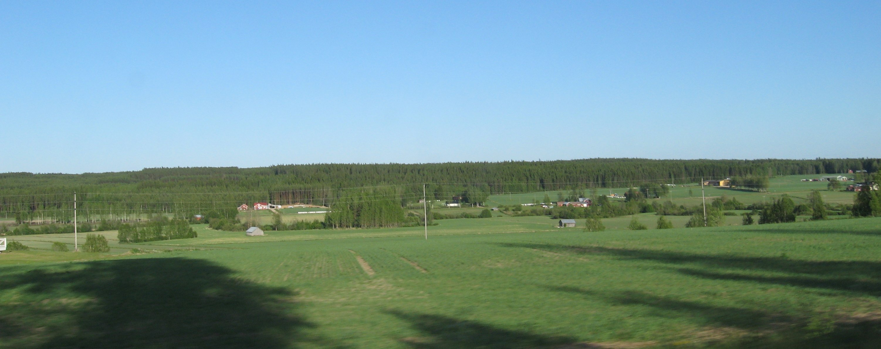 Hyypänjokilaakso valley in Hyyppä village, Kauhajoki, Finland.